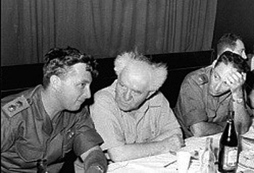 Ariel Sharon and David Ben Gurion at a meeting in 1957.